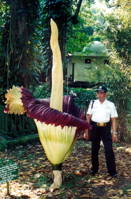 Said to be the biggest and stinkiest flower in the world. Unfortunately, the flower is not in bloom when I dropped by the Kebum Raya Bogor Garden so I have to do with this photo from a nearby souvenir shop. Scanned by CanoScan N340P, slightly improved by Picasa.